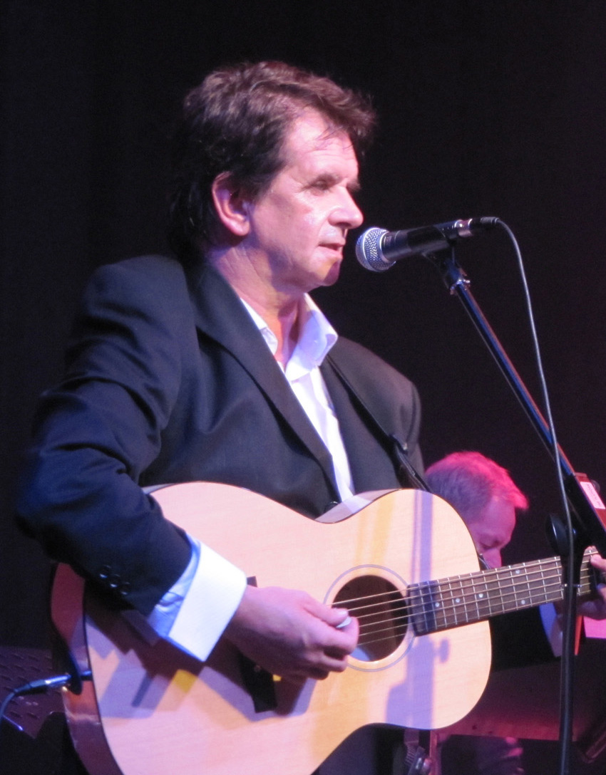 Donnie Munro performing in Morecambe, February 2010.